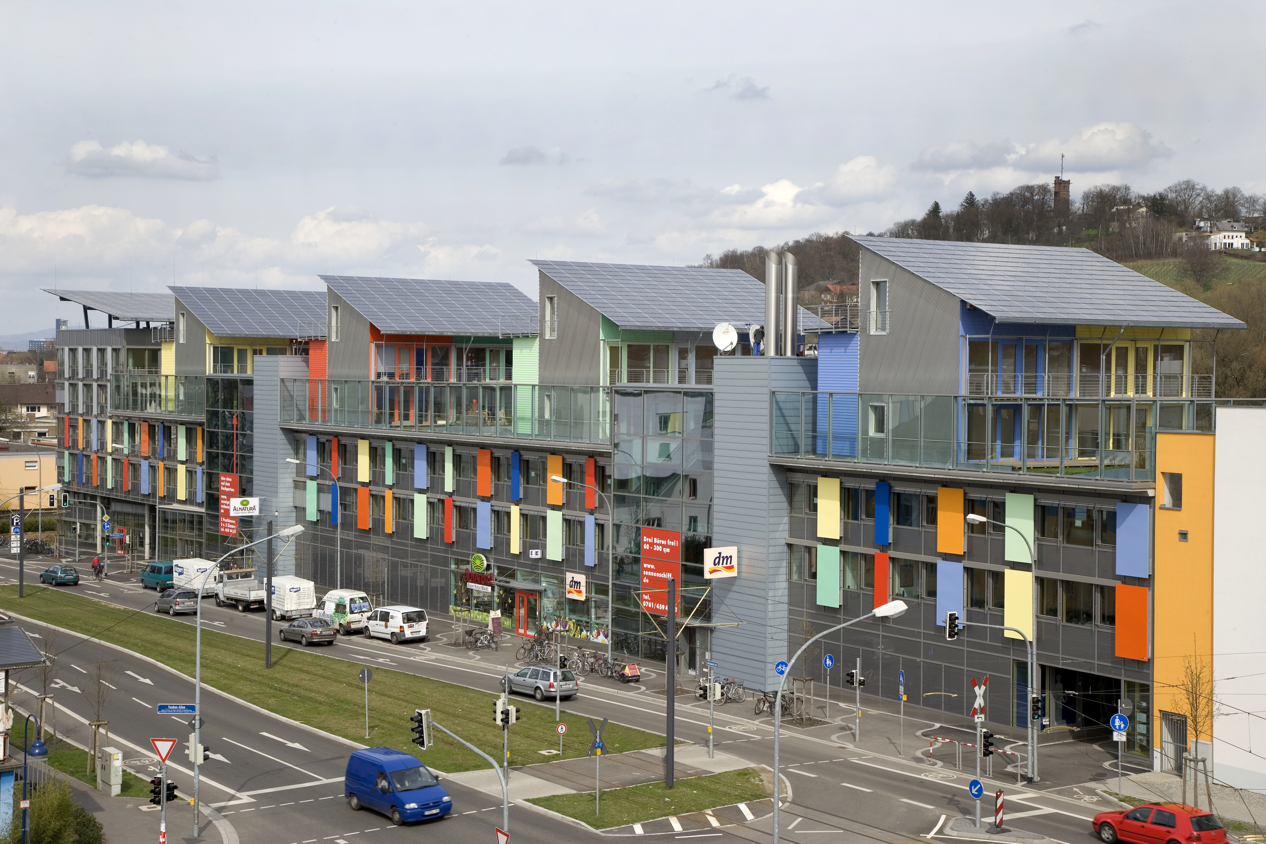 The Sun Ship, Rolf Disch's PlusEnergy concept in a retail, commercial and residential integrated building.